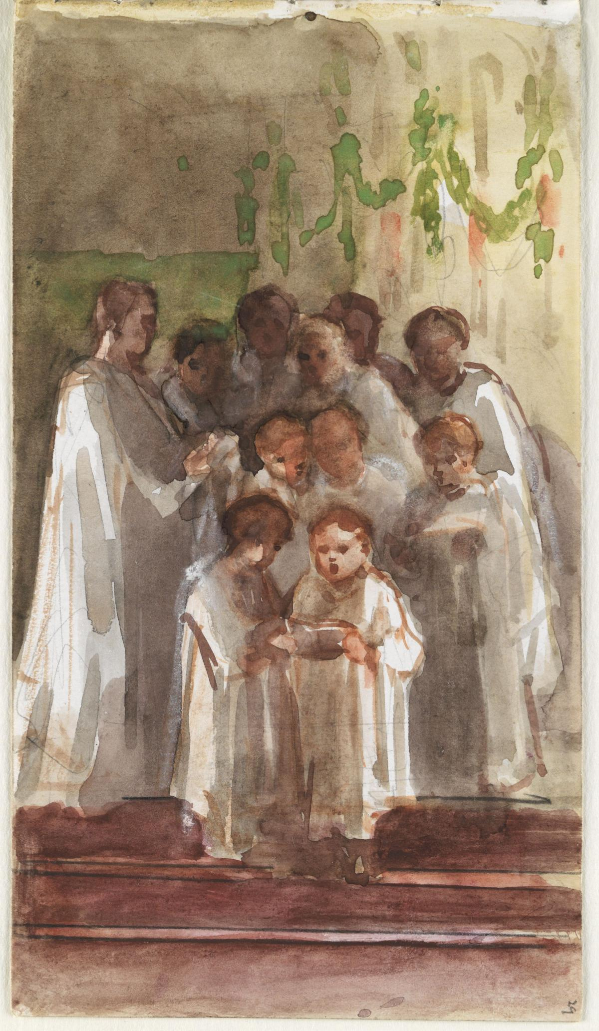 Choir singing on Christmas Day, by Louisa Anne (née Stuart), Marchioness of Waterford (died 1891), given to the National Portrait Gallery, London in 1994. All images in this batch have been confirmed as author died before 1939 according to the official death date listed by the NPG.